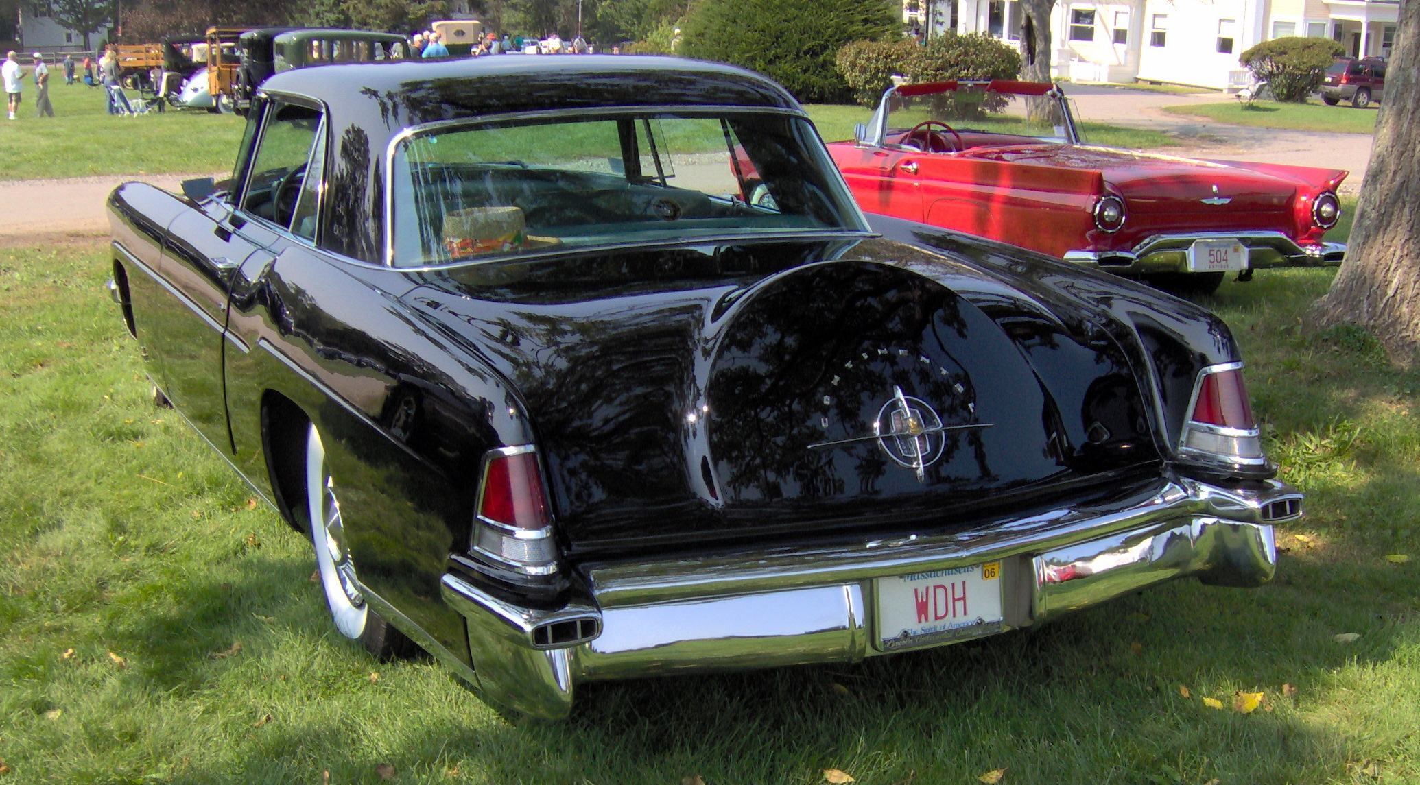 1956 Continental Mark II